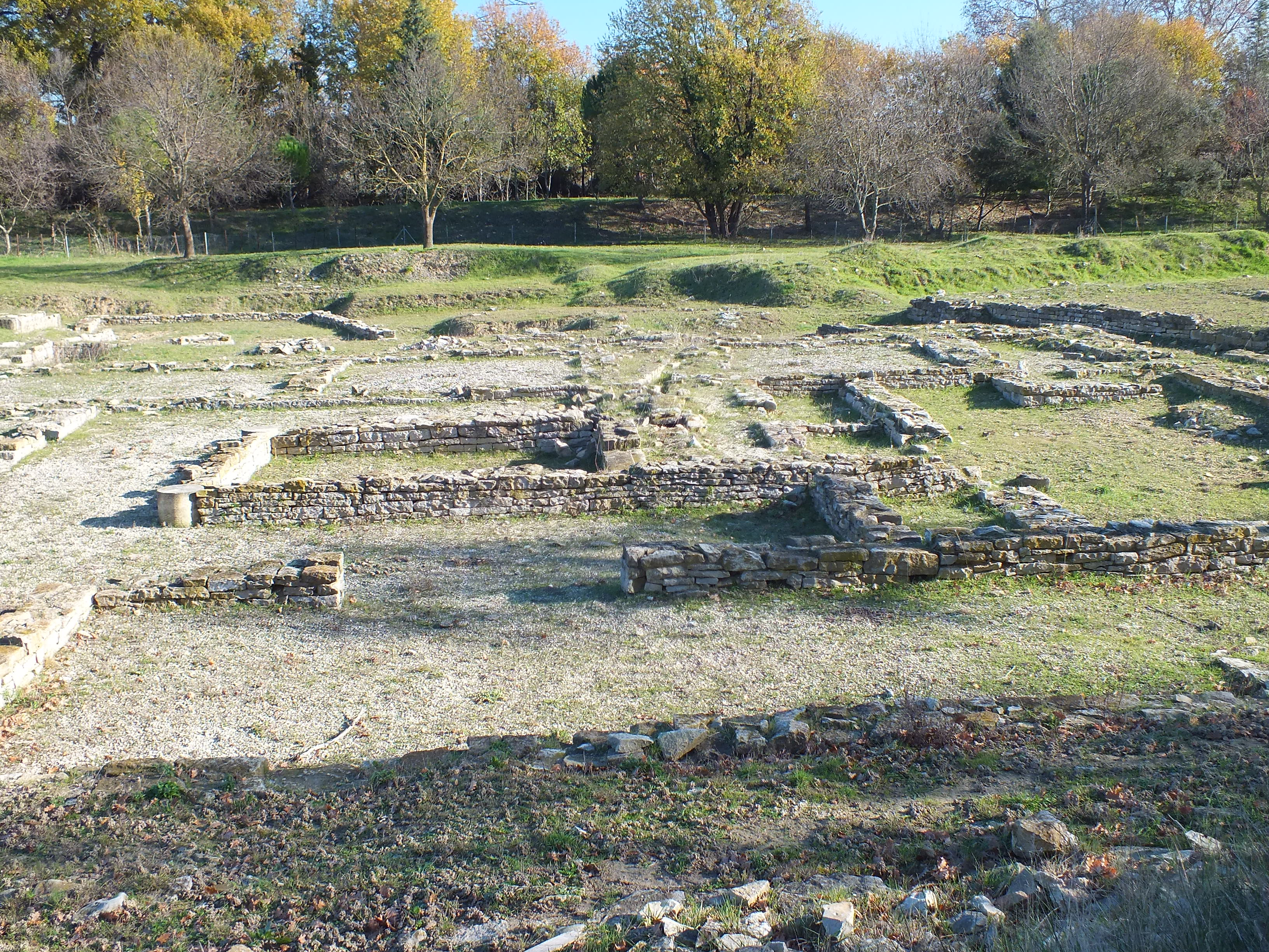 Ambrussum is a Roman archaeological site in Villetelle, near Lunel, Hérault, the Via Domitia which led over the Pont Ambroix, ran at the foot of the settlement. Here we find a staging post complex.